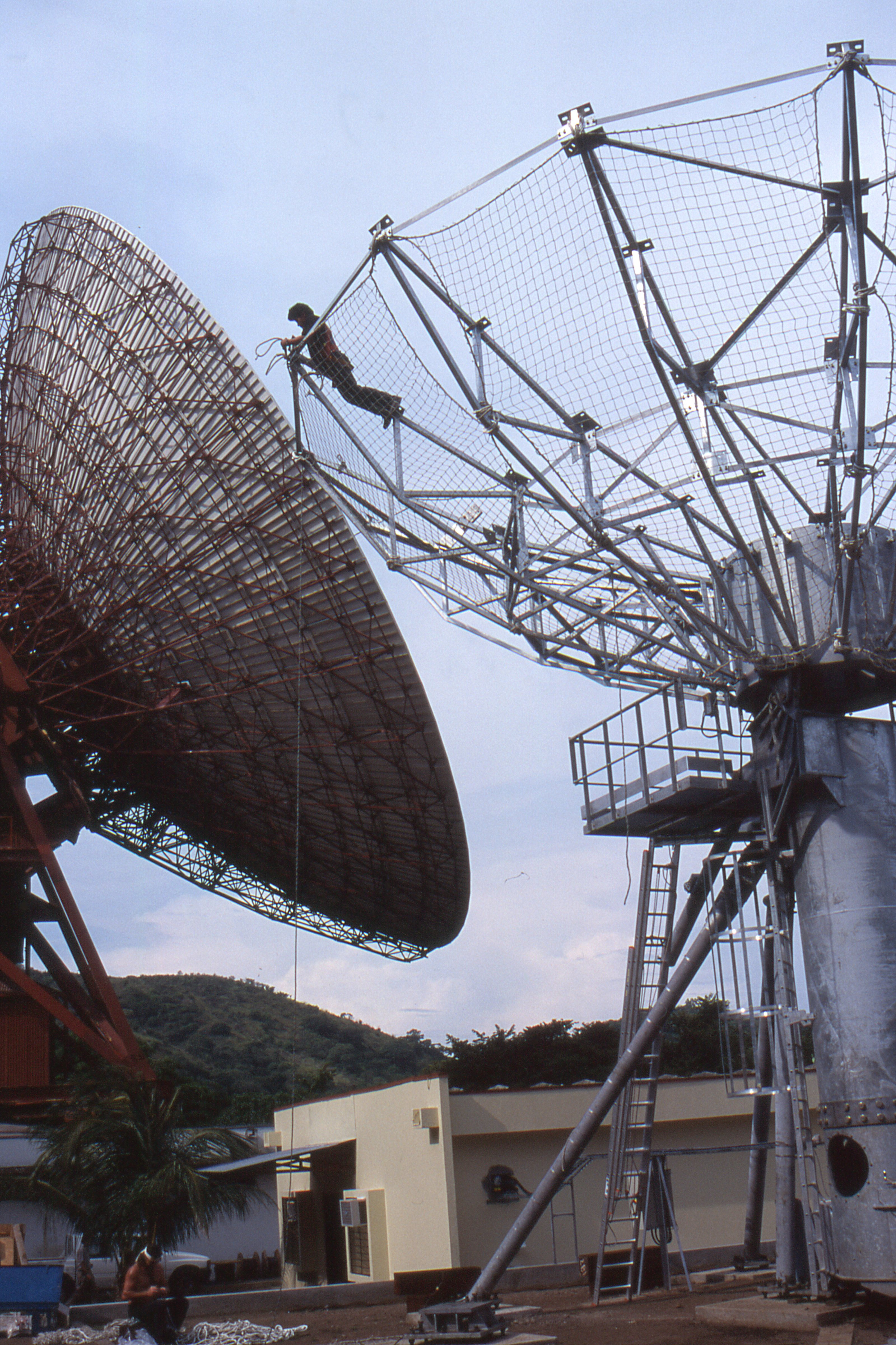 earth station antenna